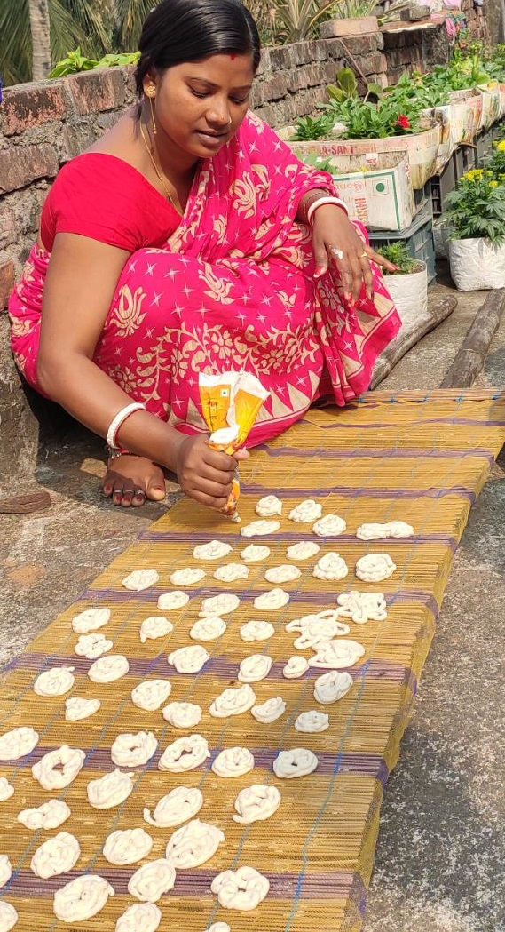 food making